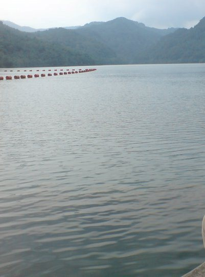 A view of Sempor reservoir